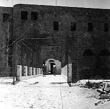 The Acre Prison, used by british forces for jail members of lehi or Irgun, or arab prisonners.